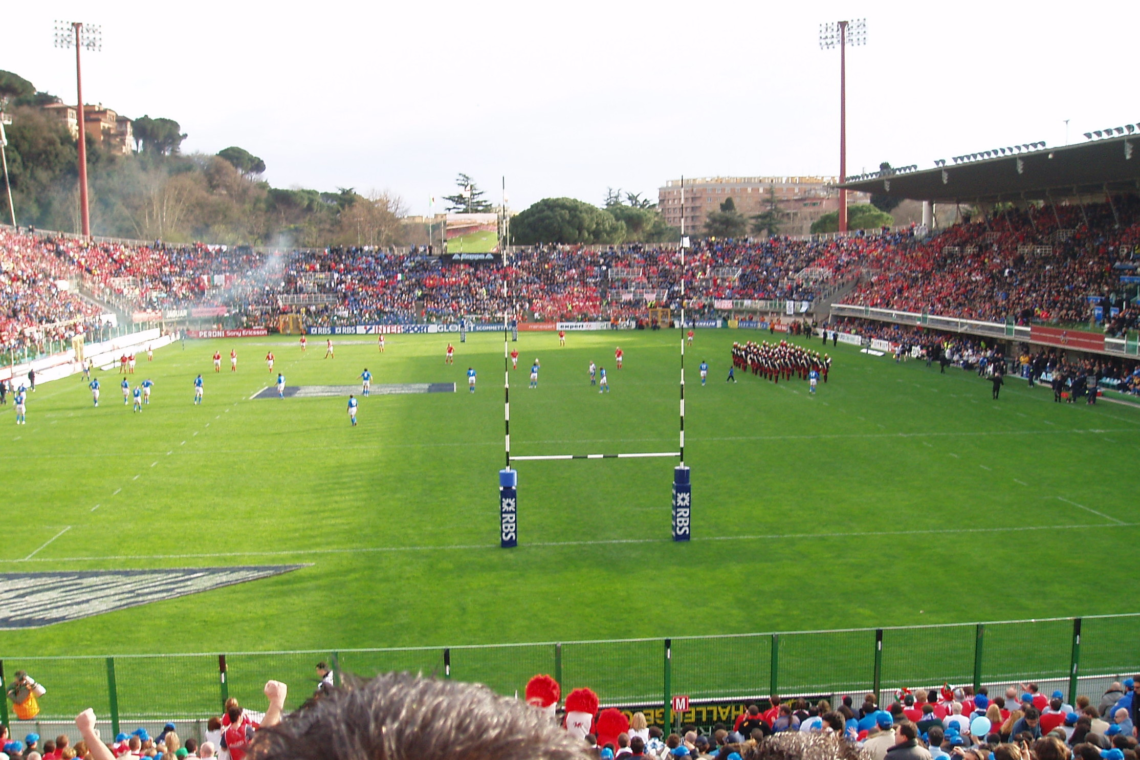 Italy vs Wales at the 2007 Six Nations Championship